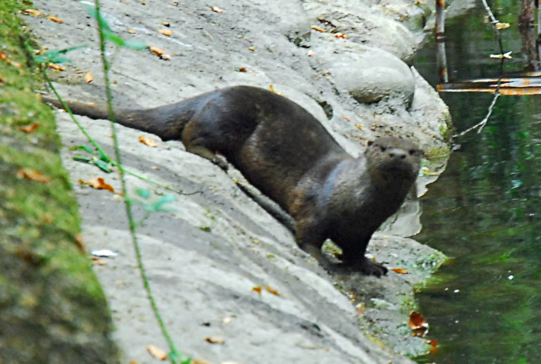 River otter (Lontra canadensis) on bank of San Anselmo Creek, tributary to Corte Madera Creek, Marin County, CA